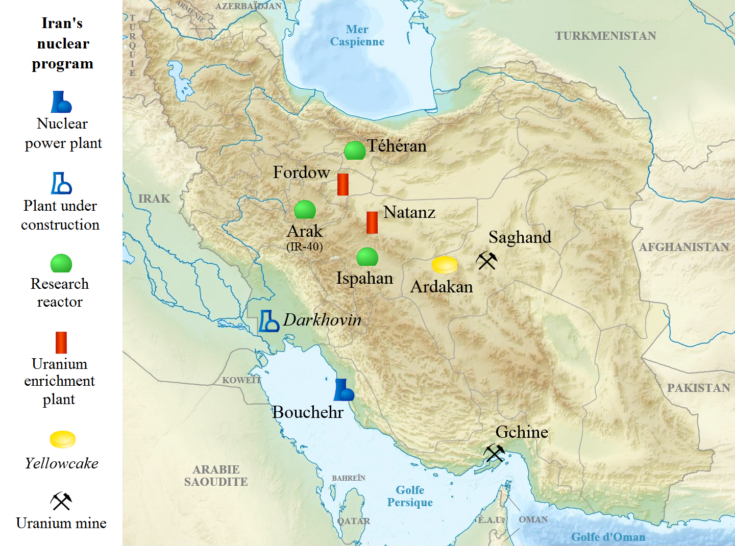 Map of the main sites of Iran's nuclear program (translated from French into English)